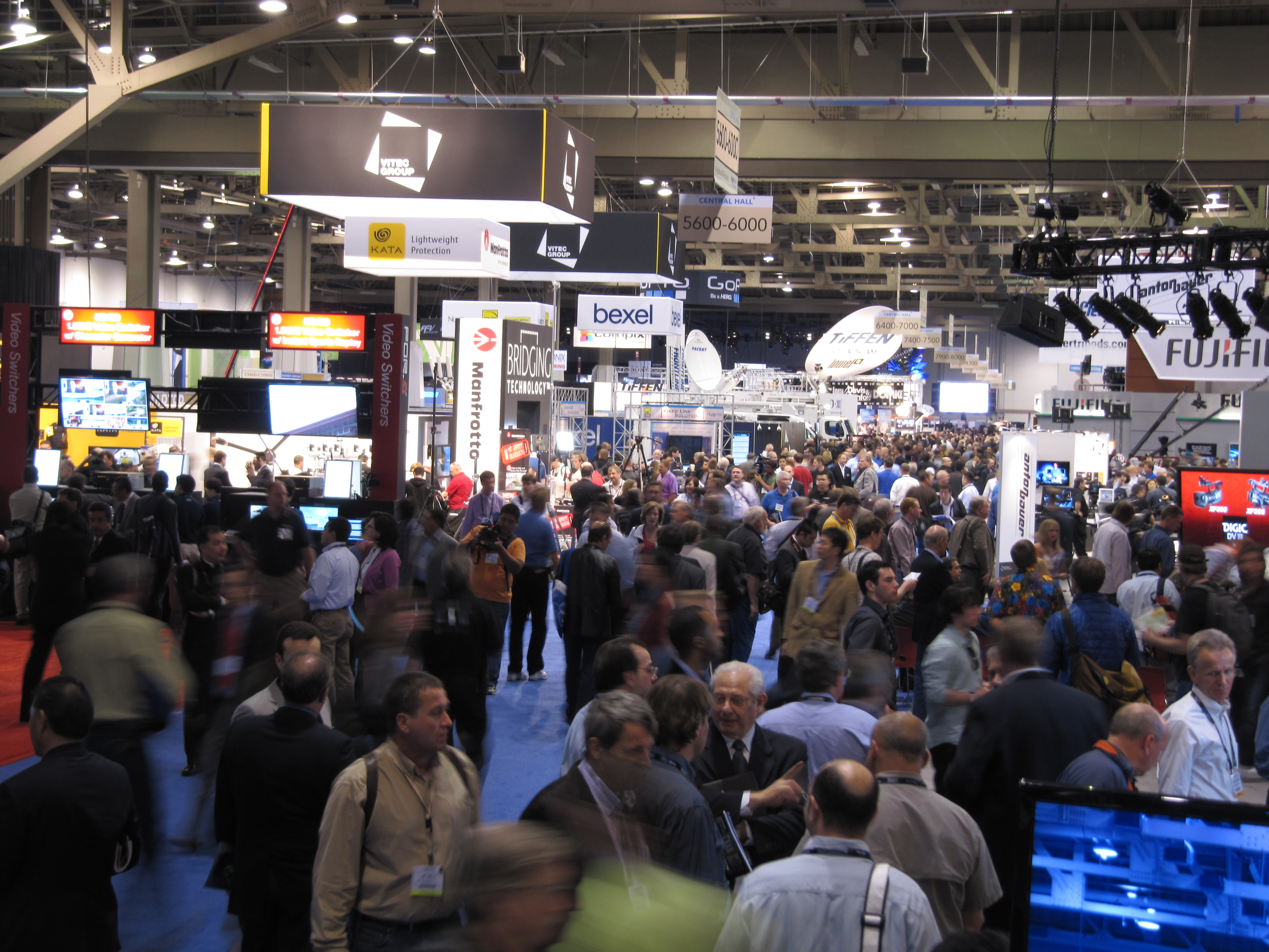 Las Vegas Convention Center North Hall at Las Vegas NAB Convention 2010 where cameras and other peripheral production equipment is on display. Photograph by Patty Mooney, Crystal Pyramid Productions, San Diego, California.